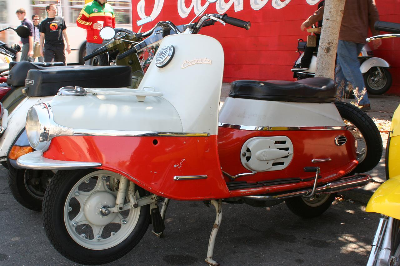 Pete Bradley's CZ-thingy (Cezeta)